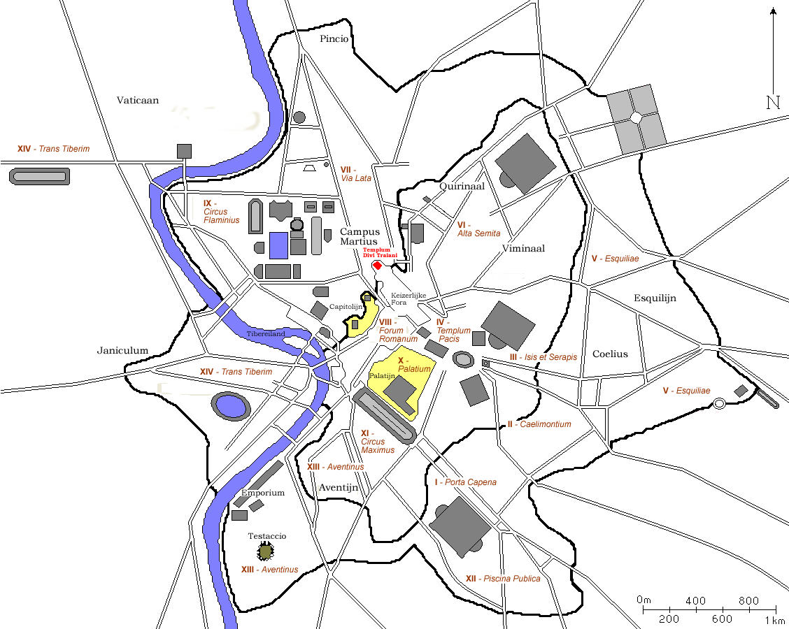 Location the Temple of Trajan on a map of ancient Rome